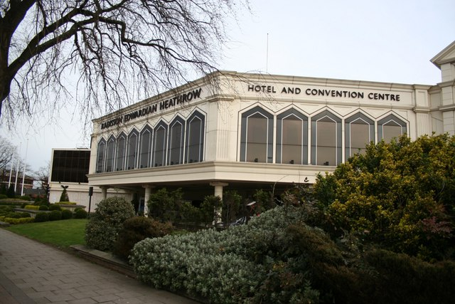 Radisson Edwardian Hotel Hotel and convention centre near Heathrow